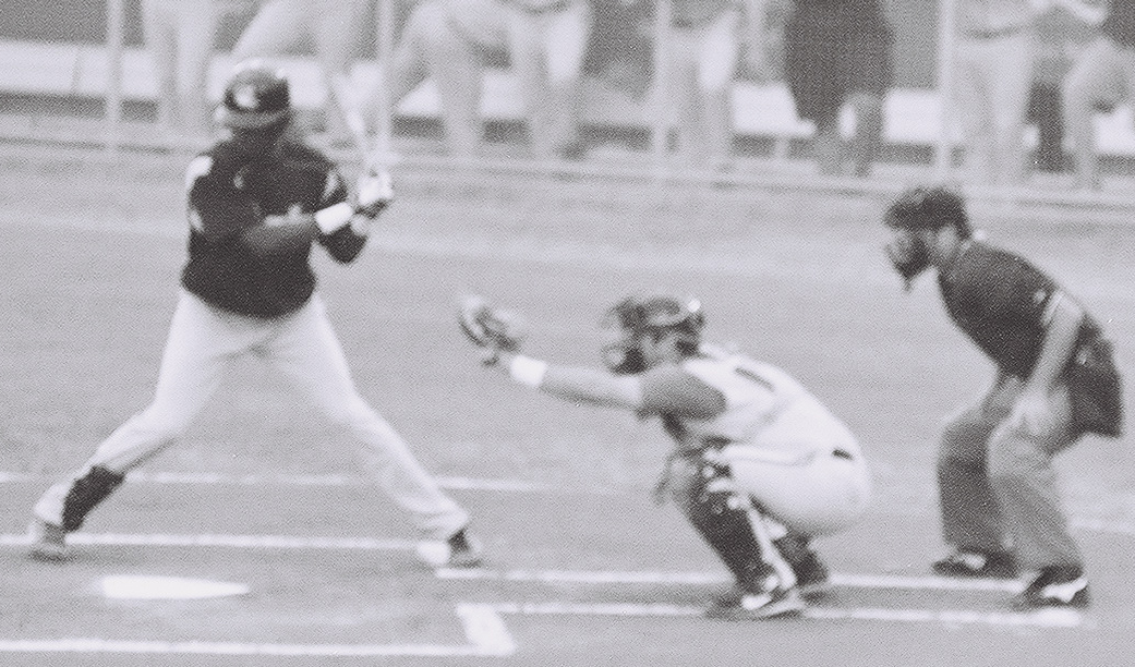 Leyson Septimo (left) bats for the South Bend Silver Hawks during a 2006 game against the Lansing Lugnuts in Lansing, Michigan.